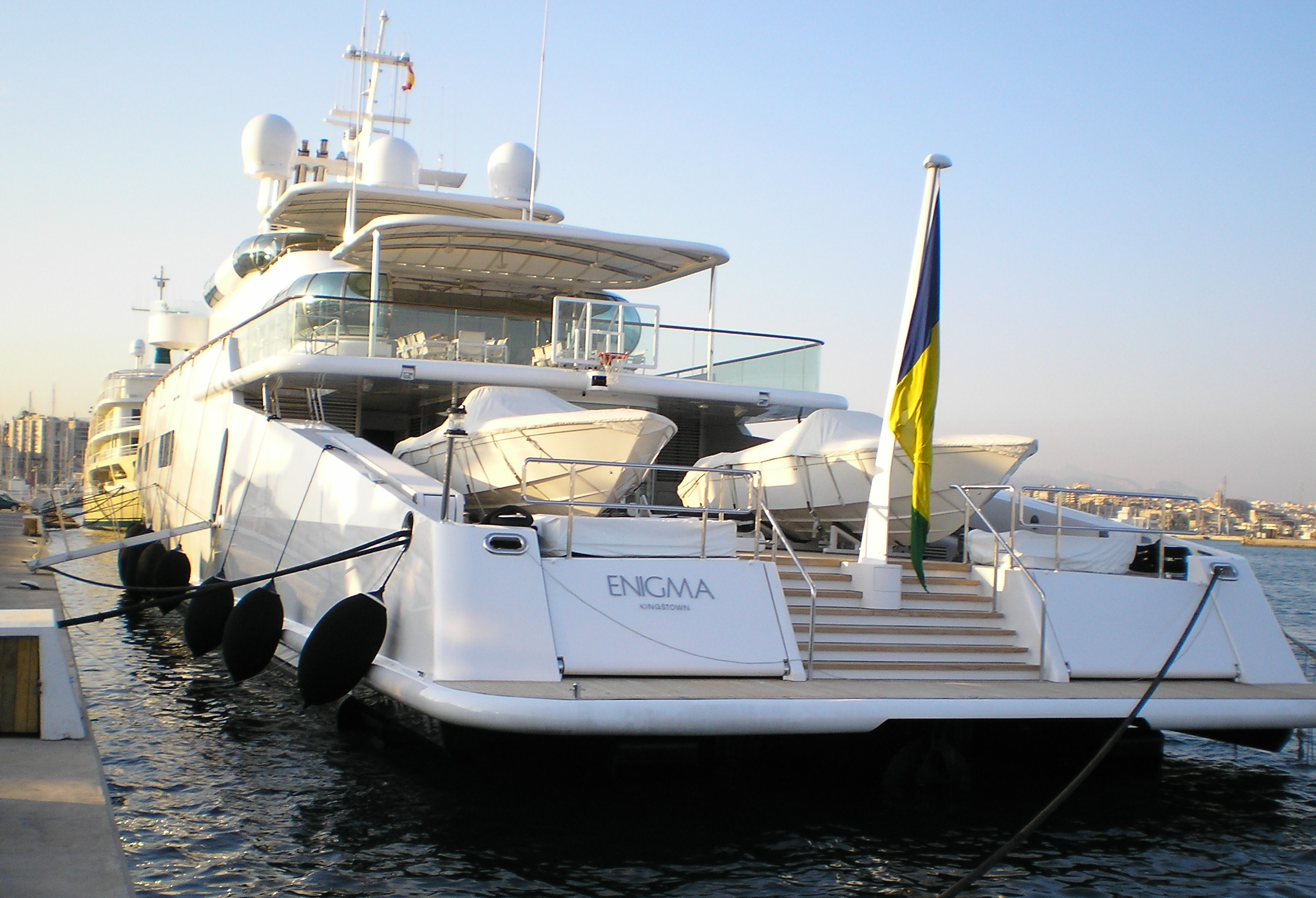 The "Enigma" superyacht in Palma de Mallorca, view from the rear IMO number : 1001506 Call Sign : J8Y2410 Gross tonnage : 1150 Type of ship : Yacht Year of build : 1991 Flag : St Vincent and Grenadines